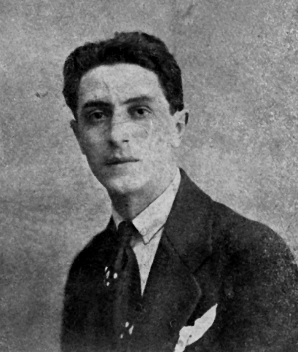 Photograph of the Romanian poet Barbu Nemțeanu, probably dating from 1909–1915. Published in the Dragomirescu edition of 1926, and republished in Adevărul (June 9, 1929), as well as, in 2009, by V. A. Urechea Library.